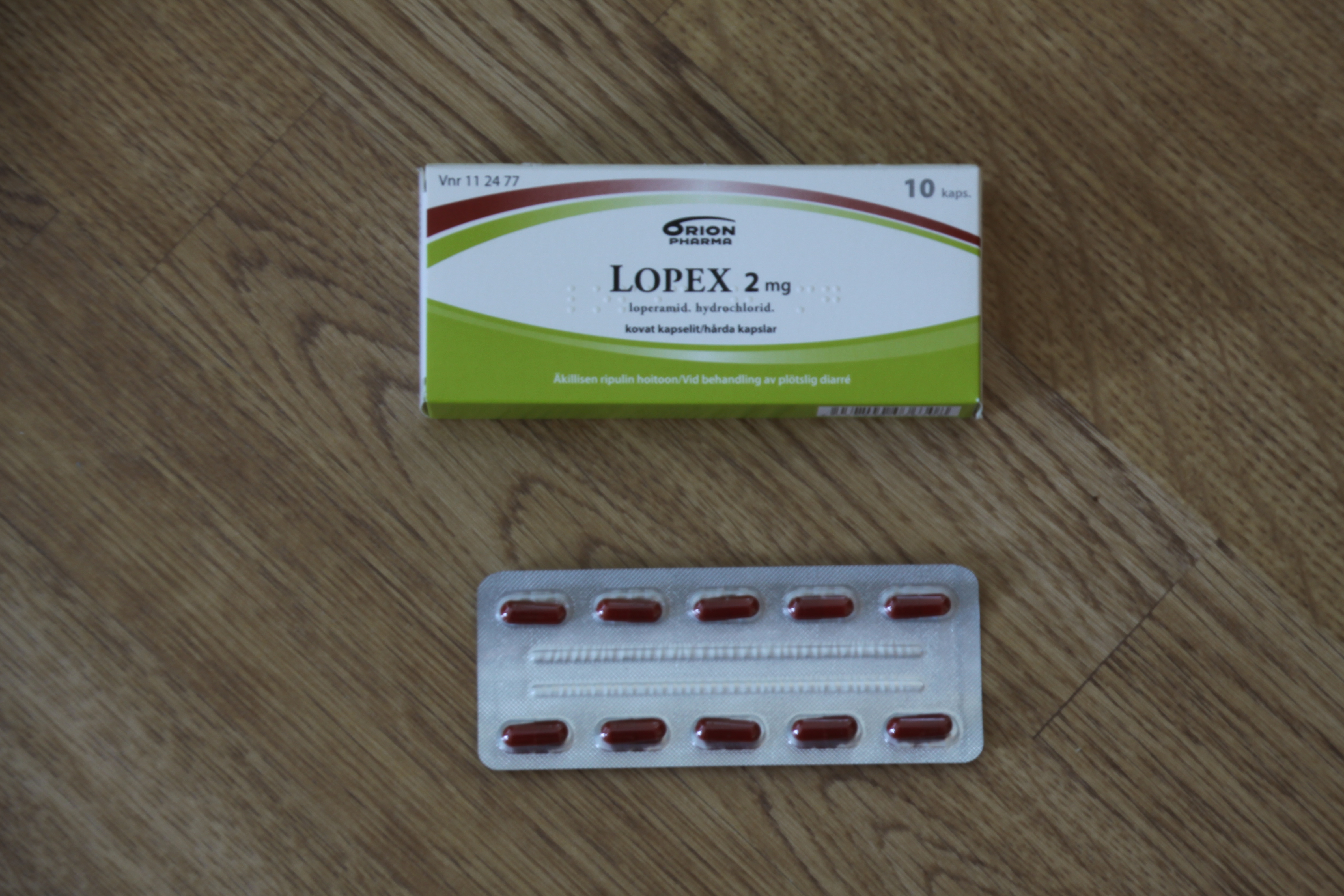 Lopex (loperamide) 2 mg -package